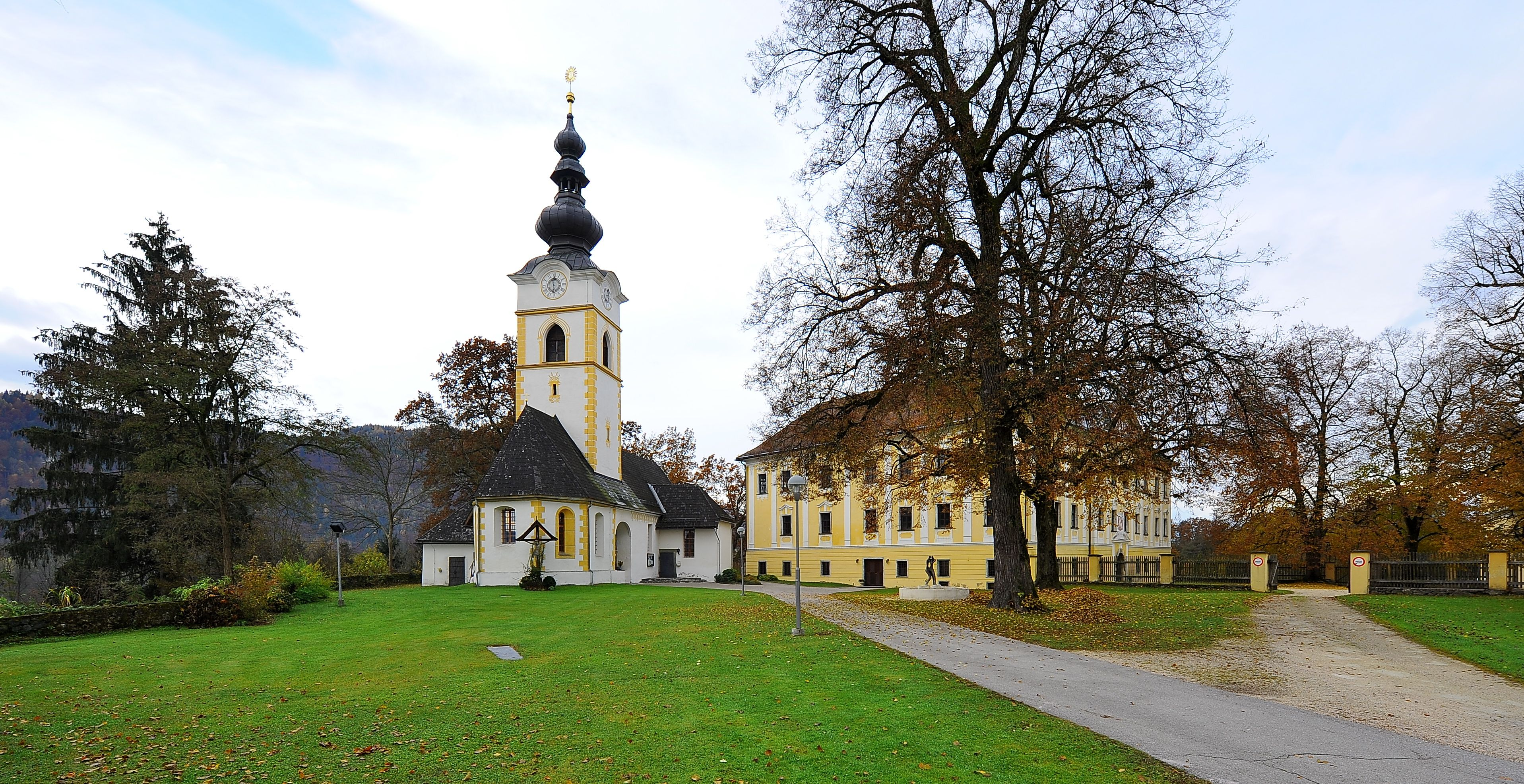 Parish church Saint Stephen and castle, market town Grafenstein, district Klagenfurt Land, Carinthia, Austria, EU